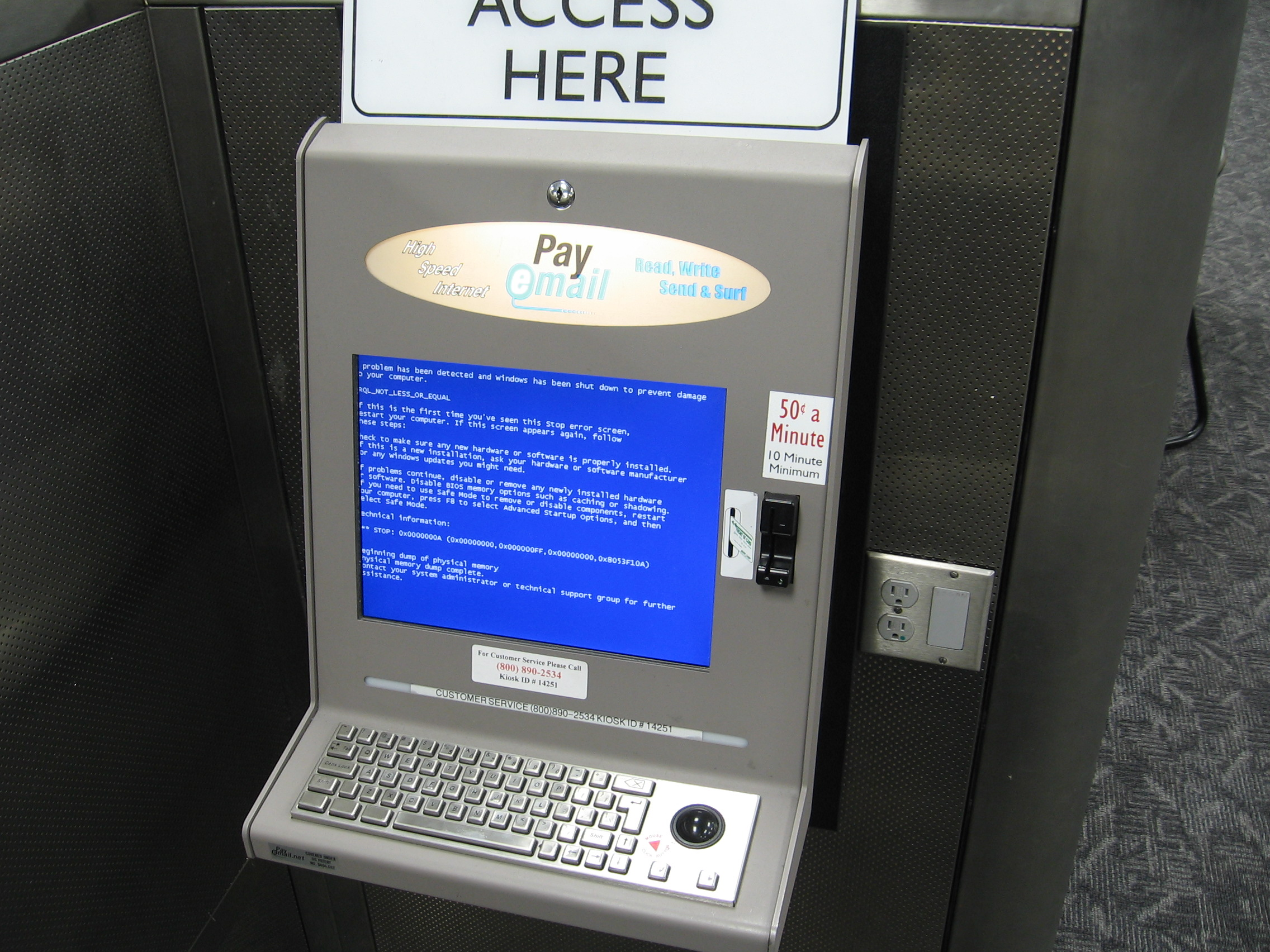 A BSoD observed at an internet terminal